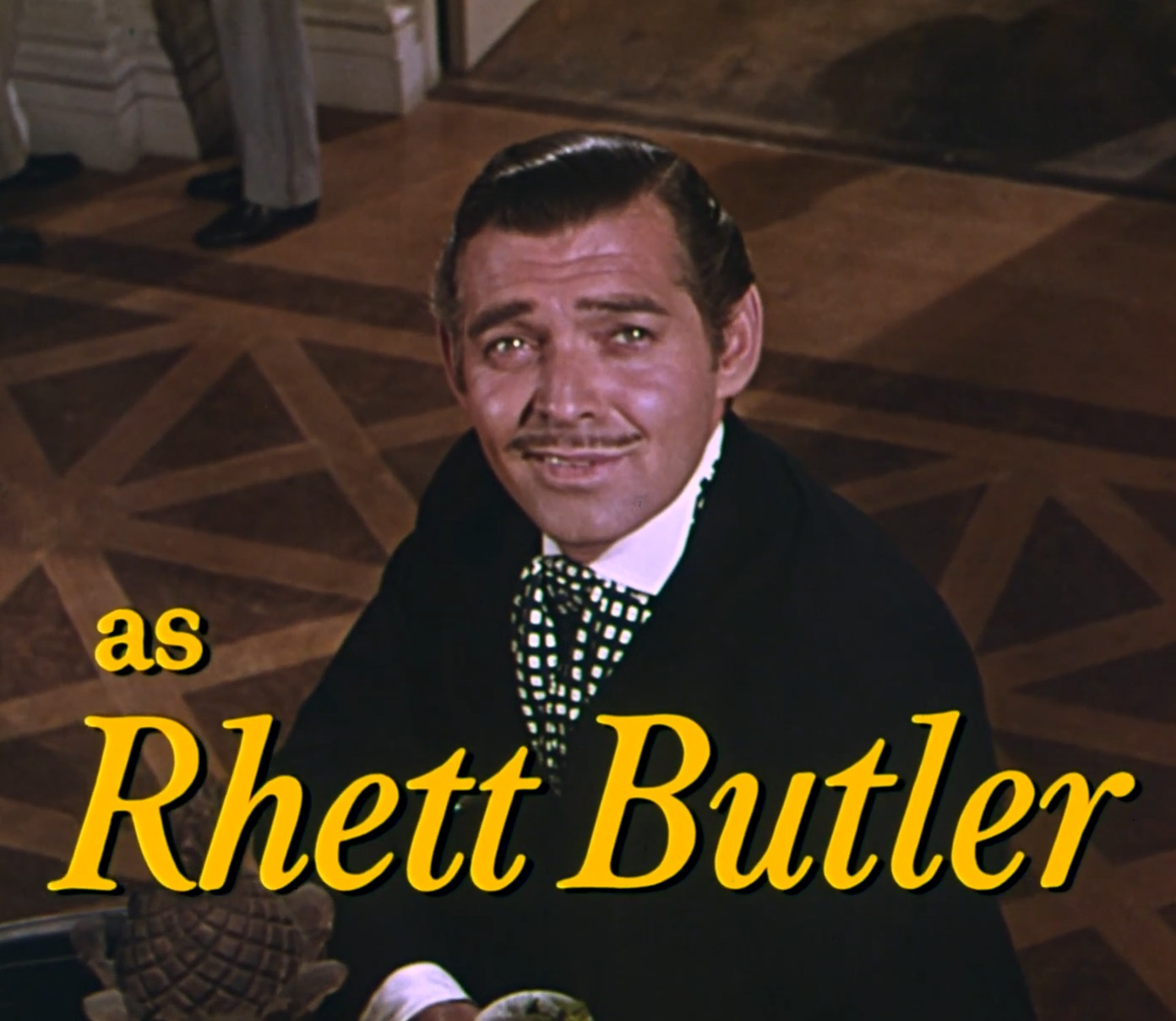 Cropped screenshot of Clark Gable from the trailer for the film Gone with the Wind